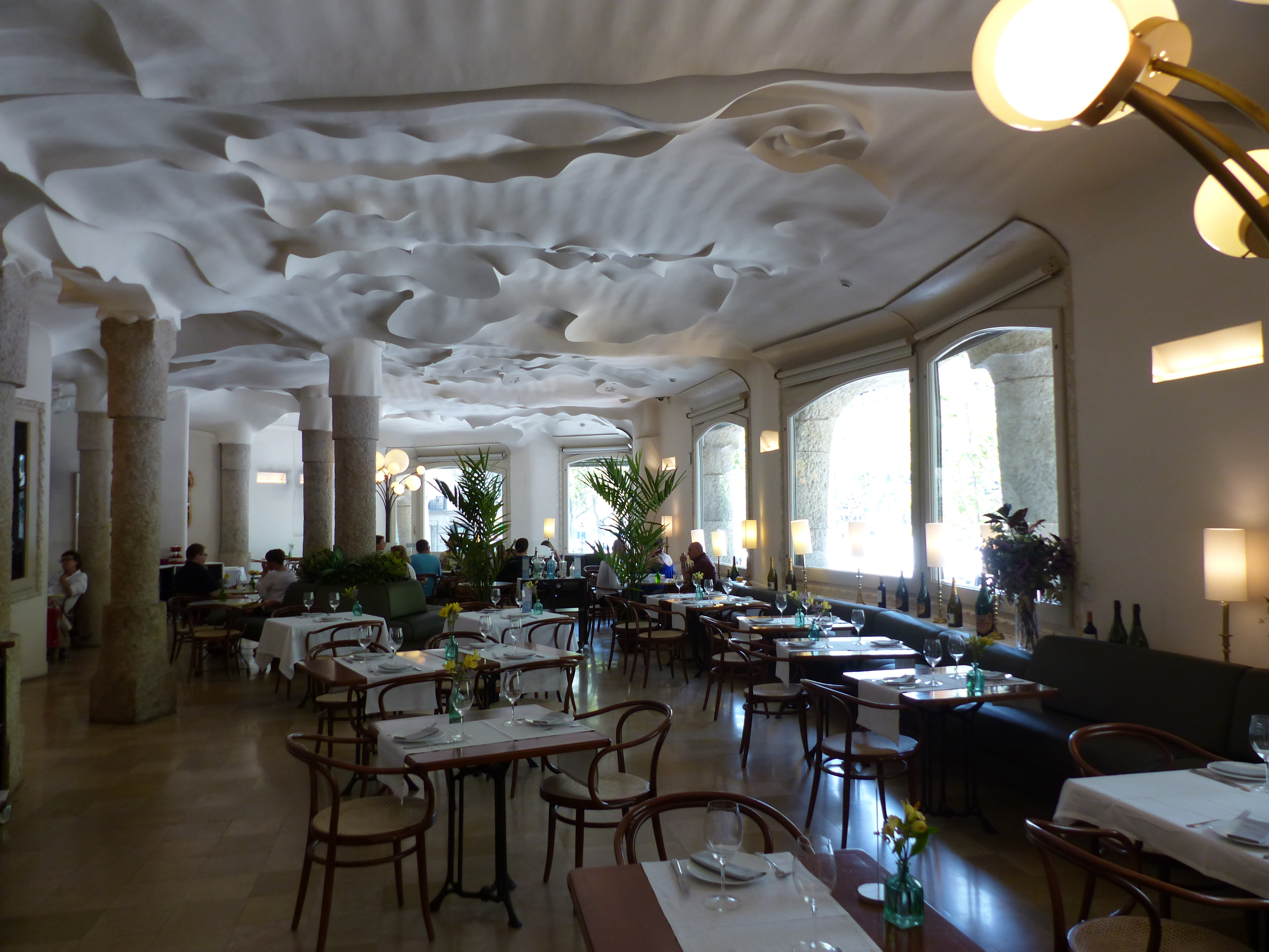 Interior of Casa Milà